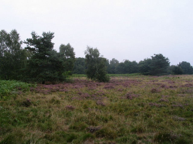 Heather and bracken, Kirkby Moor Kirkby Moor nature reserve is an area of heathland covering 75 hectares (185.2 acres) on soils developed from sands and gravels deposited in the last ice age. It is predominantly heather and bracken with oak, birch and pine woodland and some rowan, hawthorn and alder.